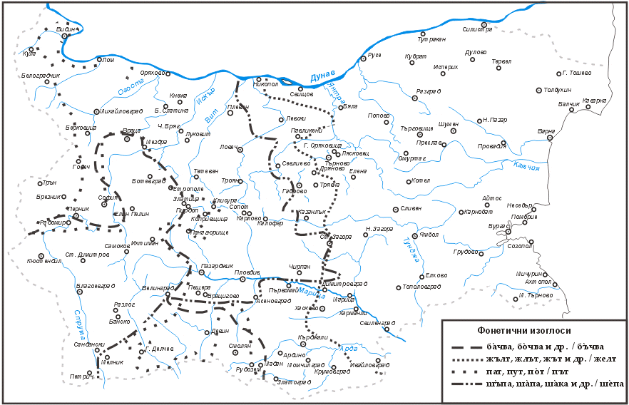 Map showing phonological isoglosses of Bulgarian speech.